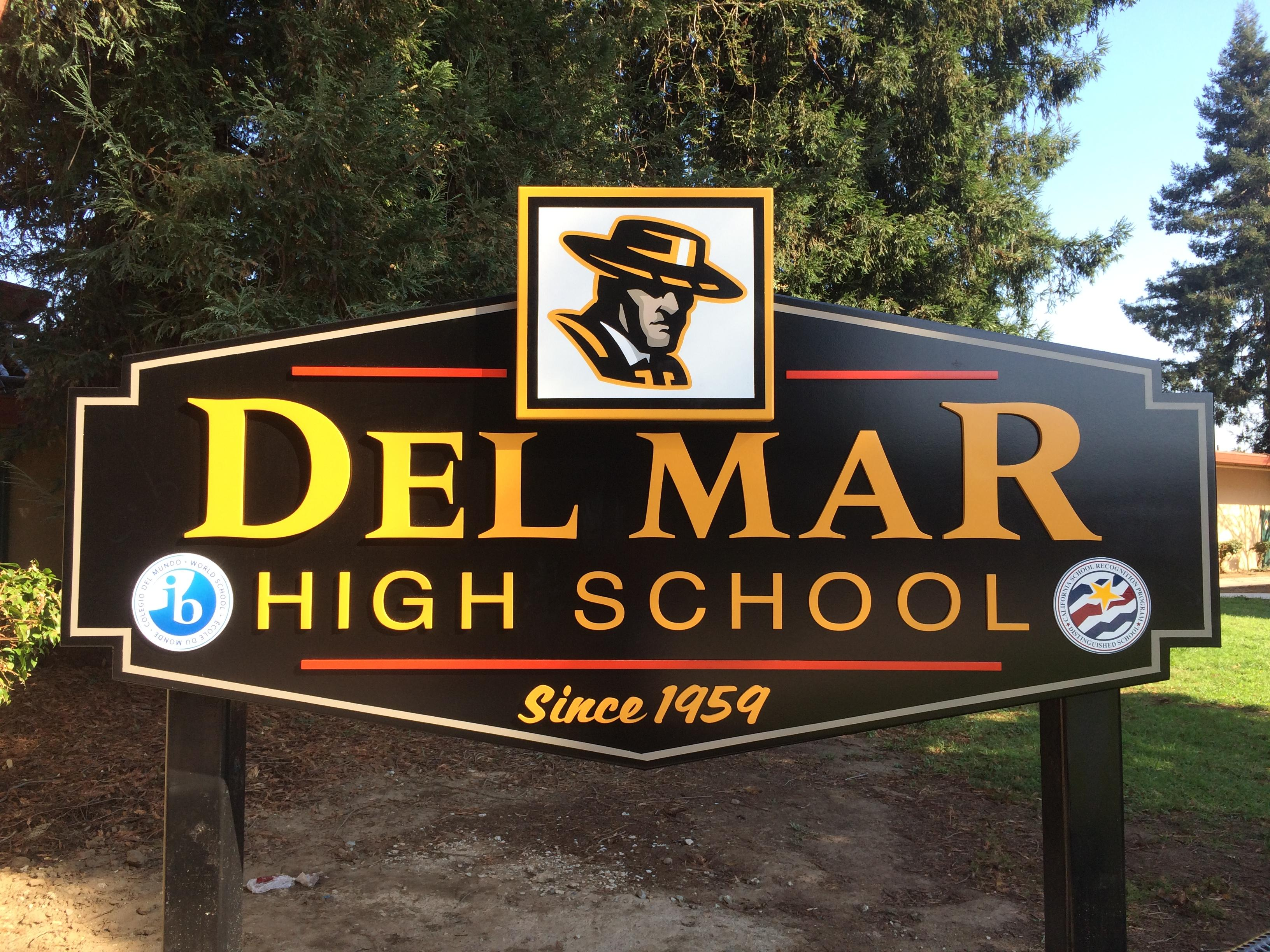 Frount sign of Del